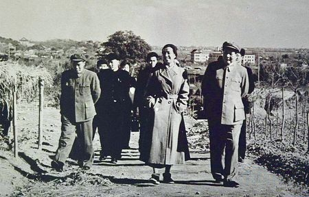 Jiang Qing, Mao Zedong in inspection tour in the 1940s.